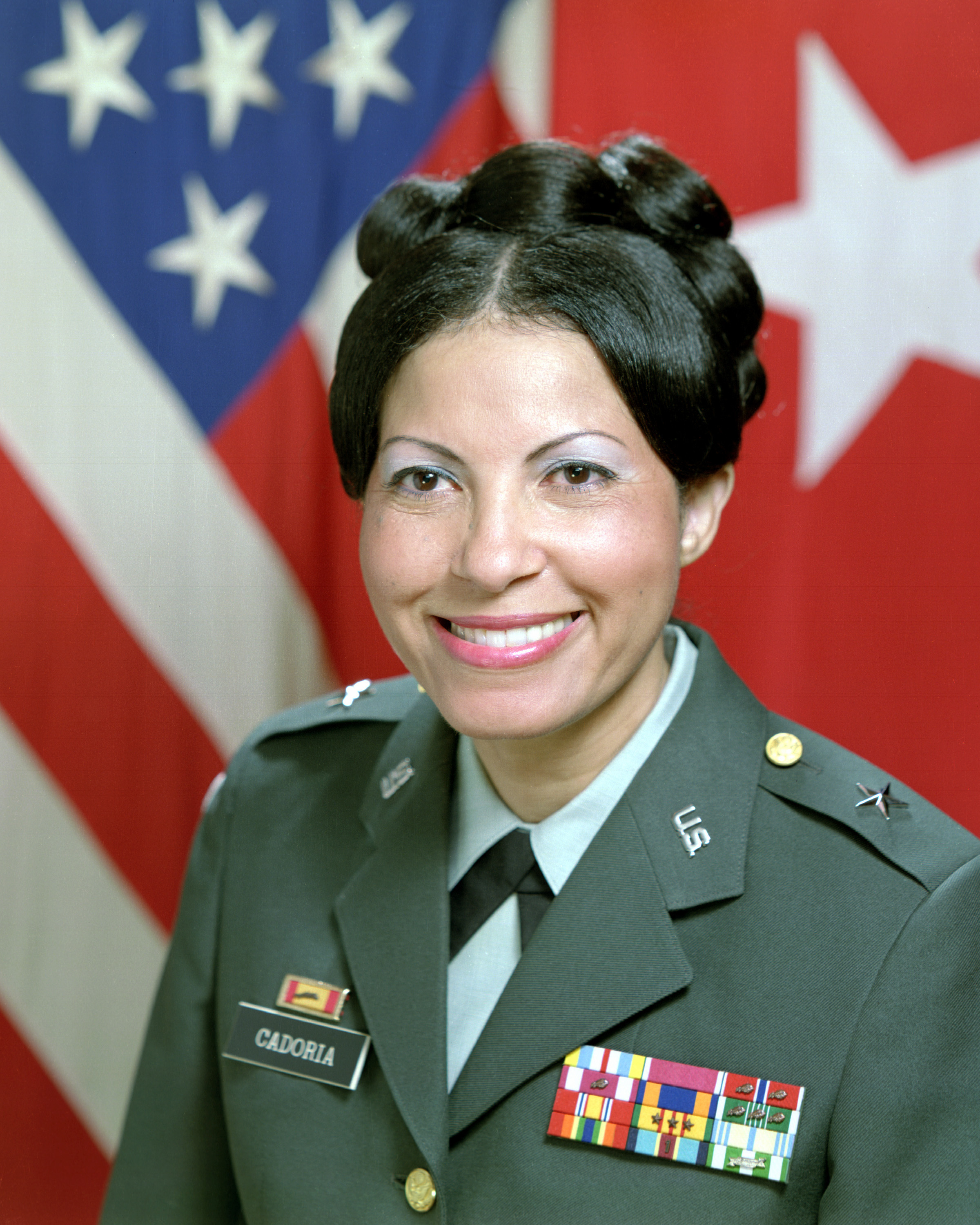 Brigadier General Sherian Cadoria from [1]